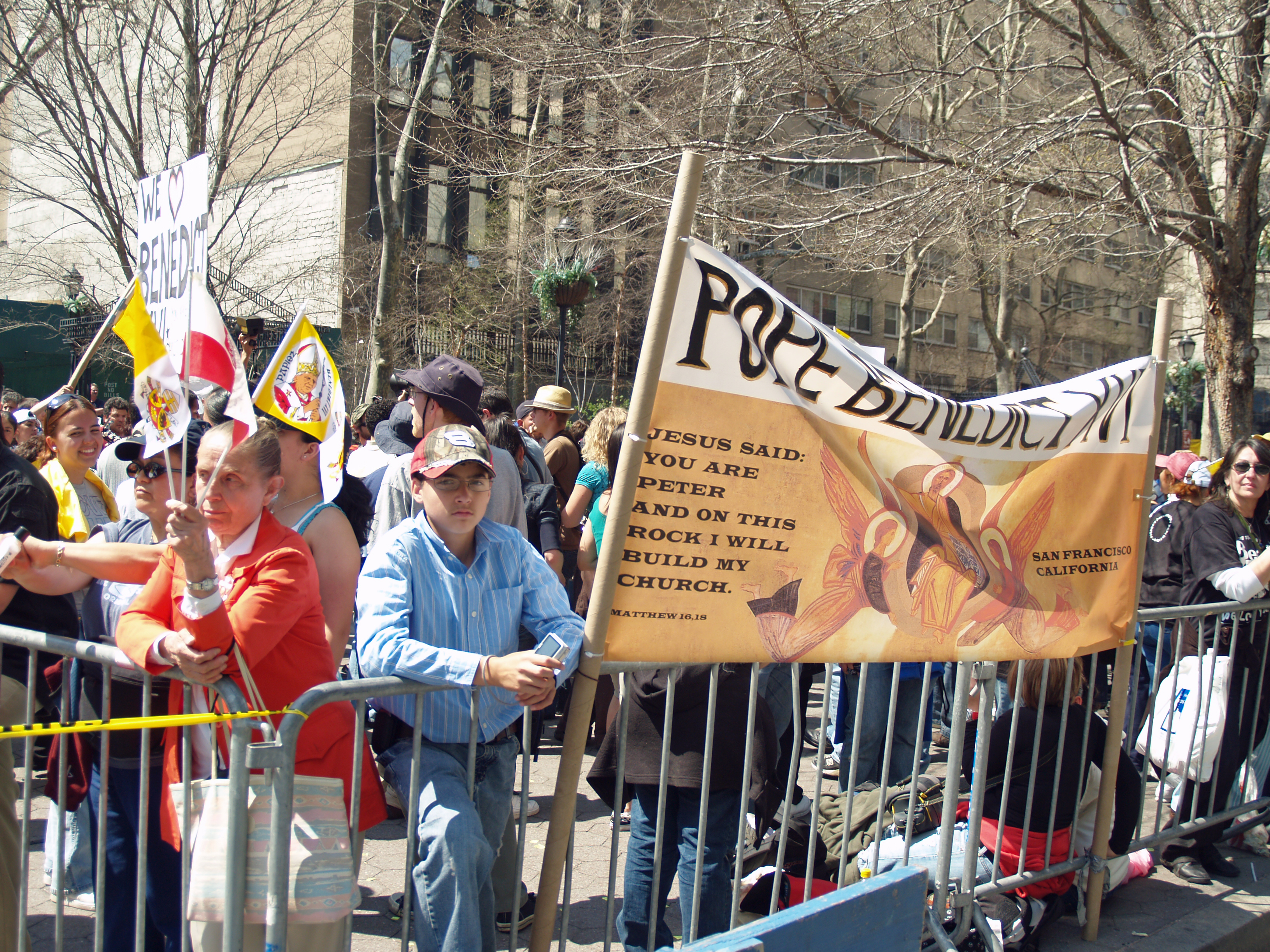 Counter protesters to the Westboro Baptist Church demonstration at the United Nations headquarters in New York City, on the day of Pope Benedict's address to the UN General Assembly.